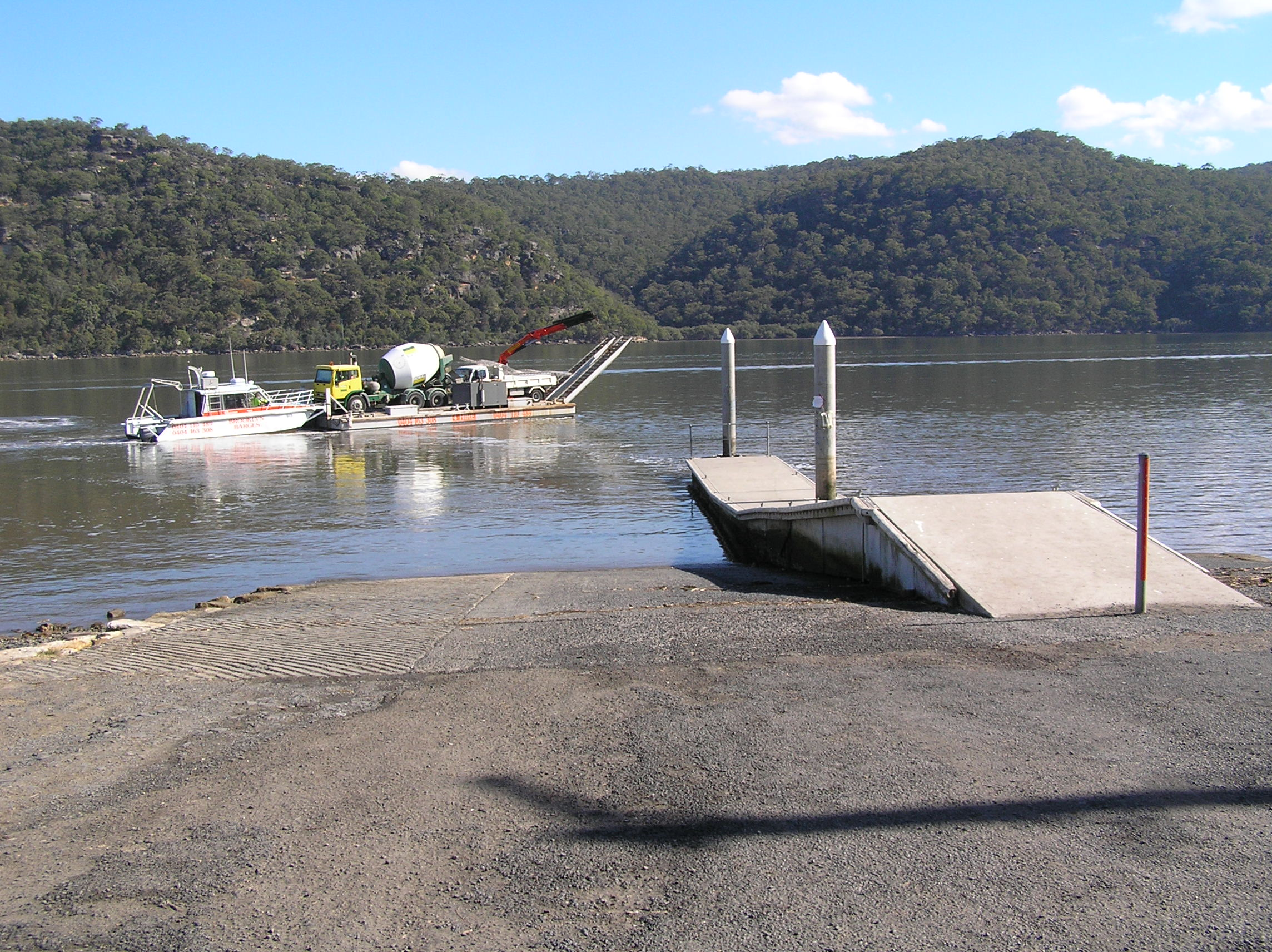 Deerubben Reserve's public facilities include wharf and boat ramps as shown. Car and trailer parking area, fish-cleaning table, advisory signs (boating, fishing, personal water craft and navigation), picnic tables and amenities are immediately adjacent.